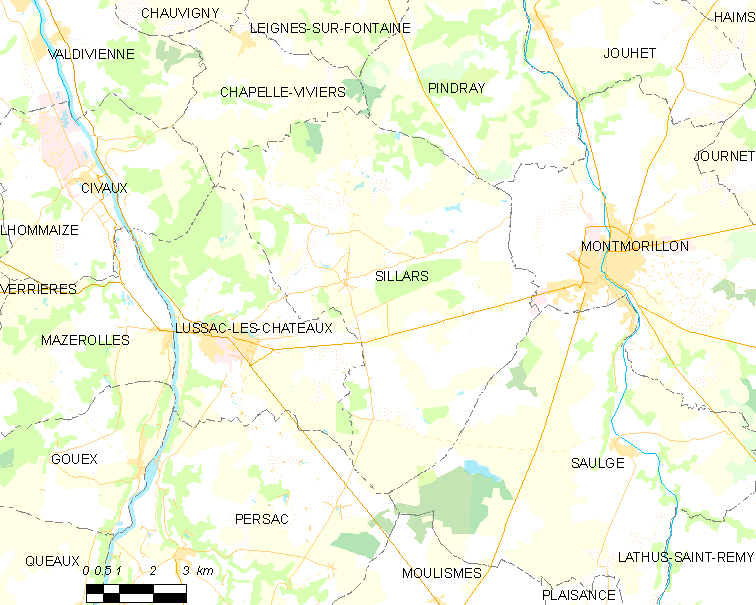 Map of French municipality Sillars